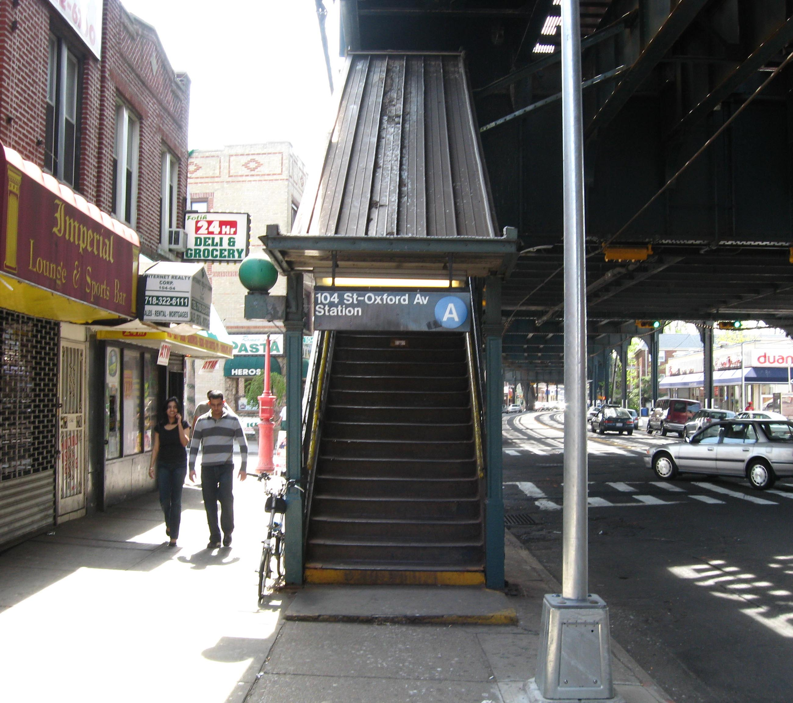 Looking southwest at Ozone Park 104th Street IND station southeast stair on a sunny spring afternoon.